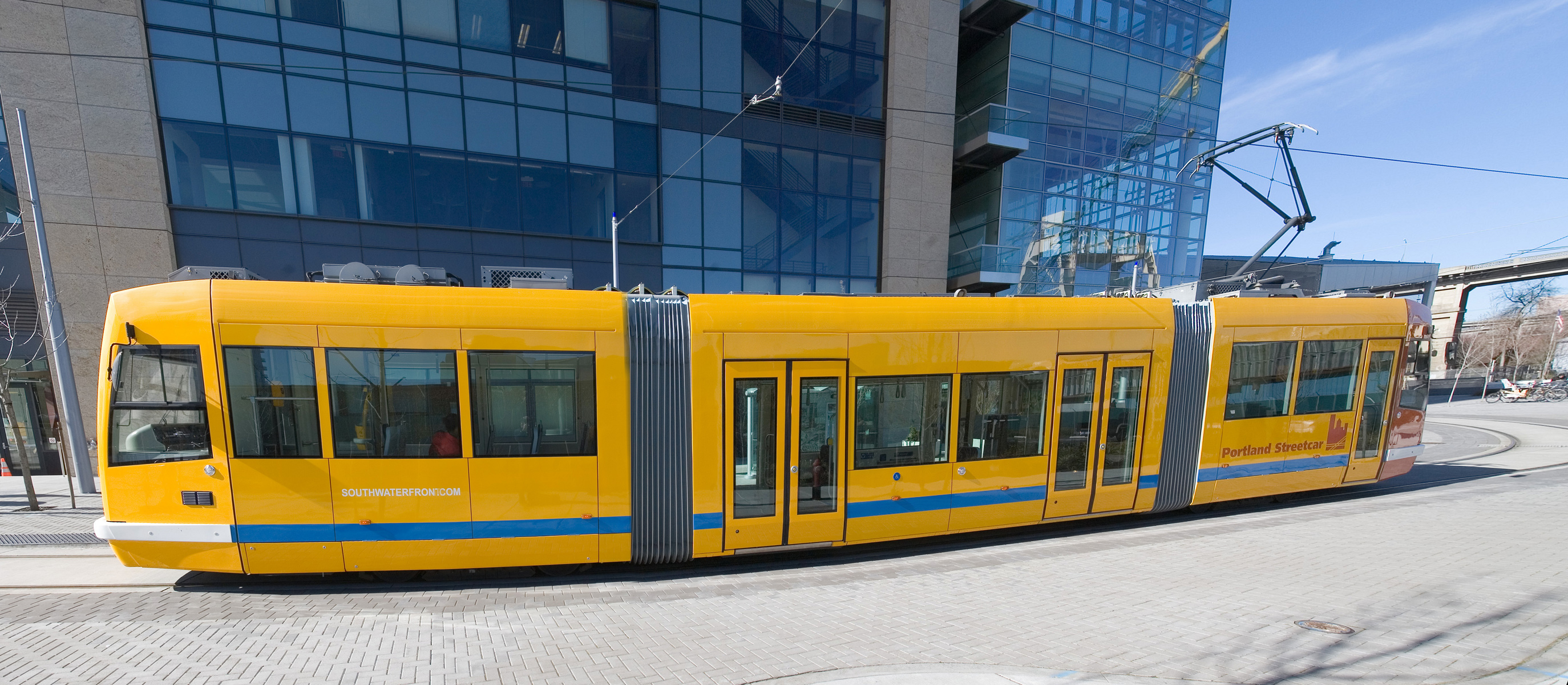 The Portland Streetcar at OHSU's South Waterfront Campus.